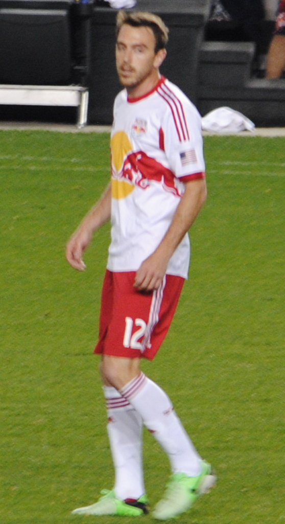 Eric Alexander playing with New York Red Bulls